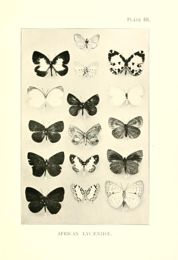 Druce, H. H. 1910 Illustrations of African Lycaenidae : being photographic representations of type specimens contained in the Imperial Zooloical Museum at Berlin. London, H.H. Druce. PLATE III Fig 1, 1a Liptena margarita Suffert. Iris xvii, p. 51, 1904. Lolodorf. An example of the well-known L. libyssa Hew. Exot. Butt. Pentila and Liptena, t. 1, f. 5. 6 (1866), and must be sunk as a synonym.[=Falcuna margarita (Suffert, 1904) Poritiinae] Fig. 2, 2a.Liptena augusta Suffert. Iris xvii, p. 50, 1904. Cameroons.Described and well figured In- M. Mabille, Anns. Ent. Soc. Fr. ser. 6,v. 10, p. 23, pi. 2, f. 2 (1890) under the name alluaudi, which name of course takes precedence.[= Liptena augusta Suffert, 1904 Poritiinae] Fig. 3, 3a Epitola mus Suffert. Iris xvii, p. 50, 1904. Suffert his xvii, p. 53. Cameroons [= Epitola catuna Kirby, 1890 Cephetola catuna (Kirby, 1890) Poritiinae] Fig. 4, 4a. Epitola mercedes Suffert. Iris xvii, p. 53, 1904. Cameroons.= [Cephetola mercedes (Suffert, 1904) Poritiinae] Fig. 5, 5a Epitola concepcion Suffert. Iris xvii, p. 54, 1904. Cameroons.[= Geritola concepcion (Suffert, 1904) Poritiinae] Fig. 6, 6a Cupido soalalicus Karsch. Ent. Nachr, xxvi, 1900, p. 369. West Madagascar.Appears to be closely allied to Azantis jesous Guer, as stated by Dr. Karsch. [= Azanus soalalicus Karsch,1900 Polyommatinae] Fig. 7, 7a Lachnocnema brimo Karsch. B.E.Z. 38, p. 217 (1893). Bismarkburg.[Lachnocnema brimomKarsch, 1893 Miletinae] Fig. 8, 8a Cupido kontu Karsch. B.E.Z. 38, p. 227 (1893). Bismarkburg.Treated by Professor Aurivilius as a variety of C. (Castalius) carana Hew.Exot Butt,, Lyc. t. if 6 (1876) [=Tuxentius carana kontu Polyommatinae] (Karsch, 1893)